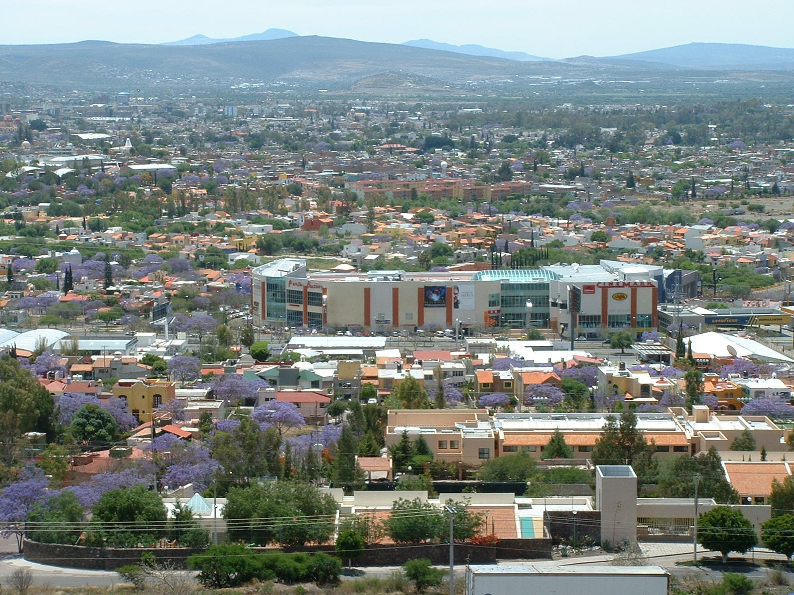 Picture taken by me Picture taken by me